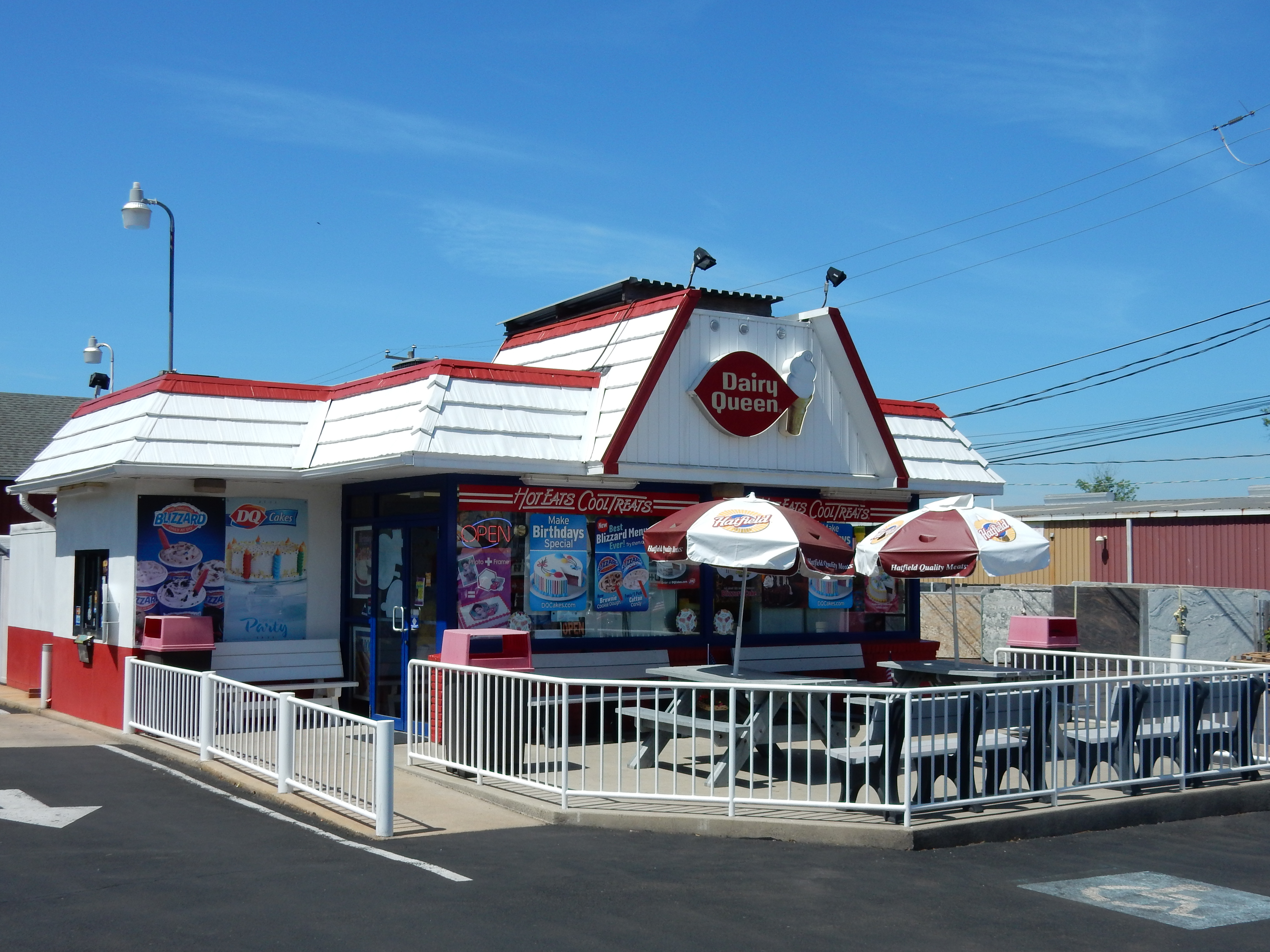 Dairy Queen restaurant on N. Main St., Dublin, Bucks County, PA.